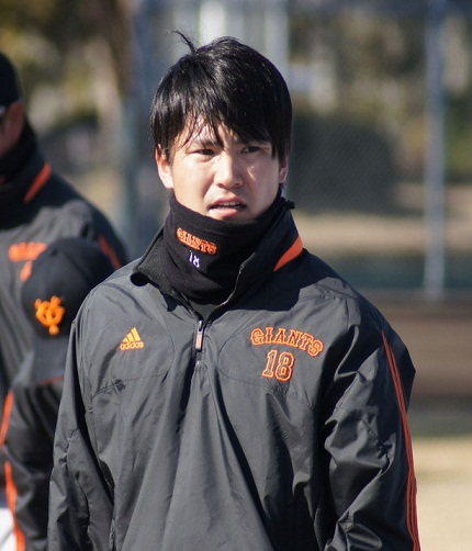 Toshiya Sugiuchi, pitcher of the Yomiuri Giants.